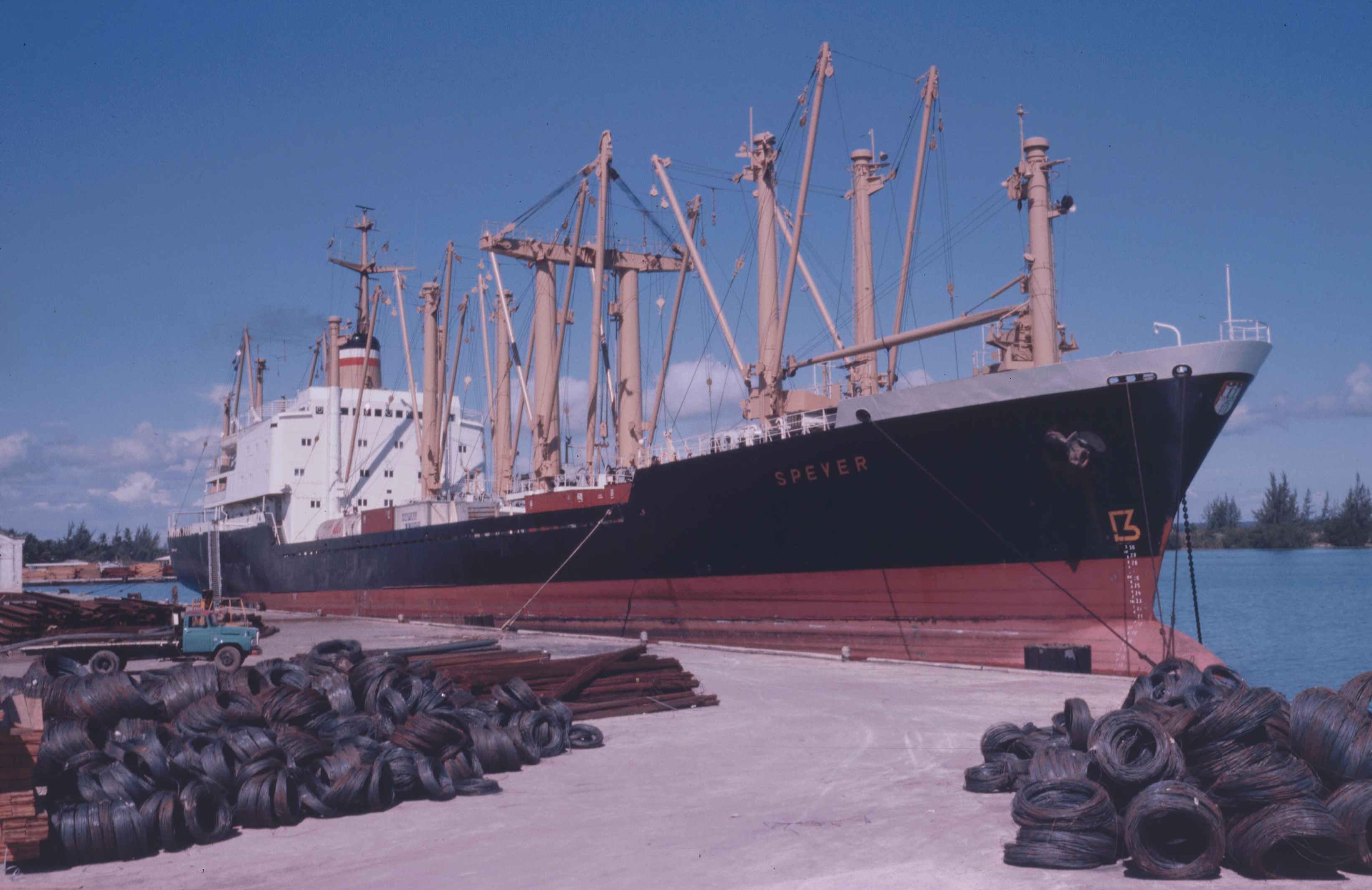 Hapag-Lloyd cargo ship MS Speyer in the port of Boca Chica, Dominican Republic